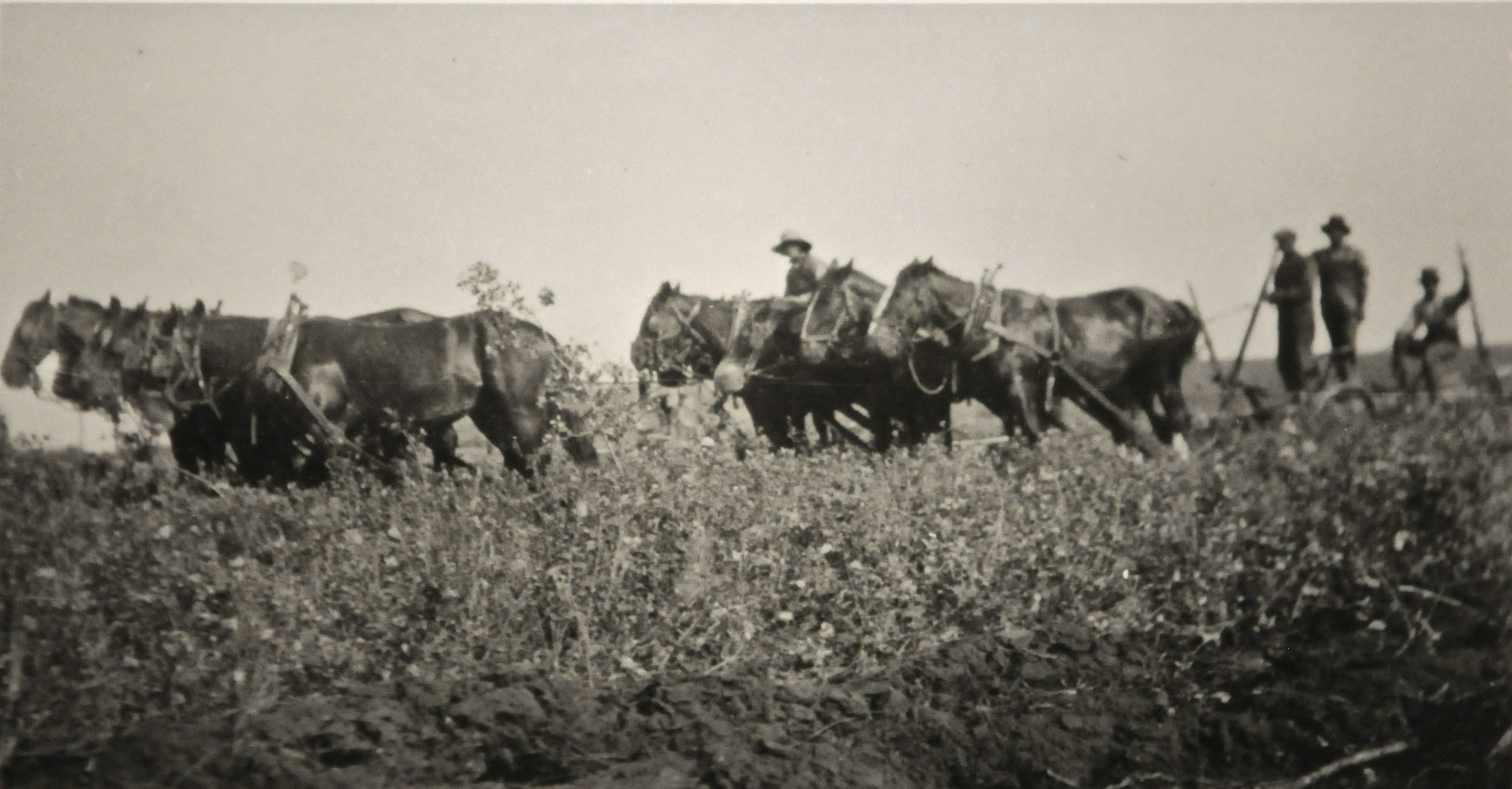 An archival image depicting a team of horses pulling an early piece of farming equipment near Montmartre Saskatchewan.;Other information: Reference Number: RA19896